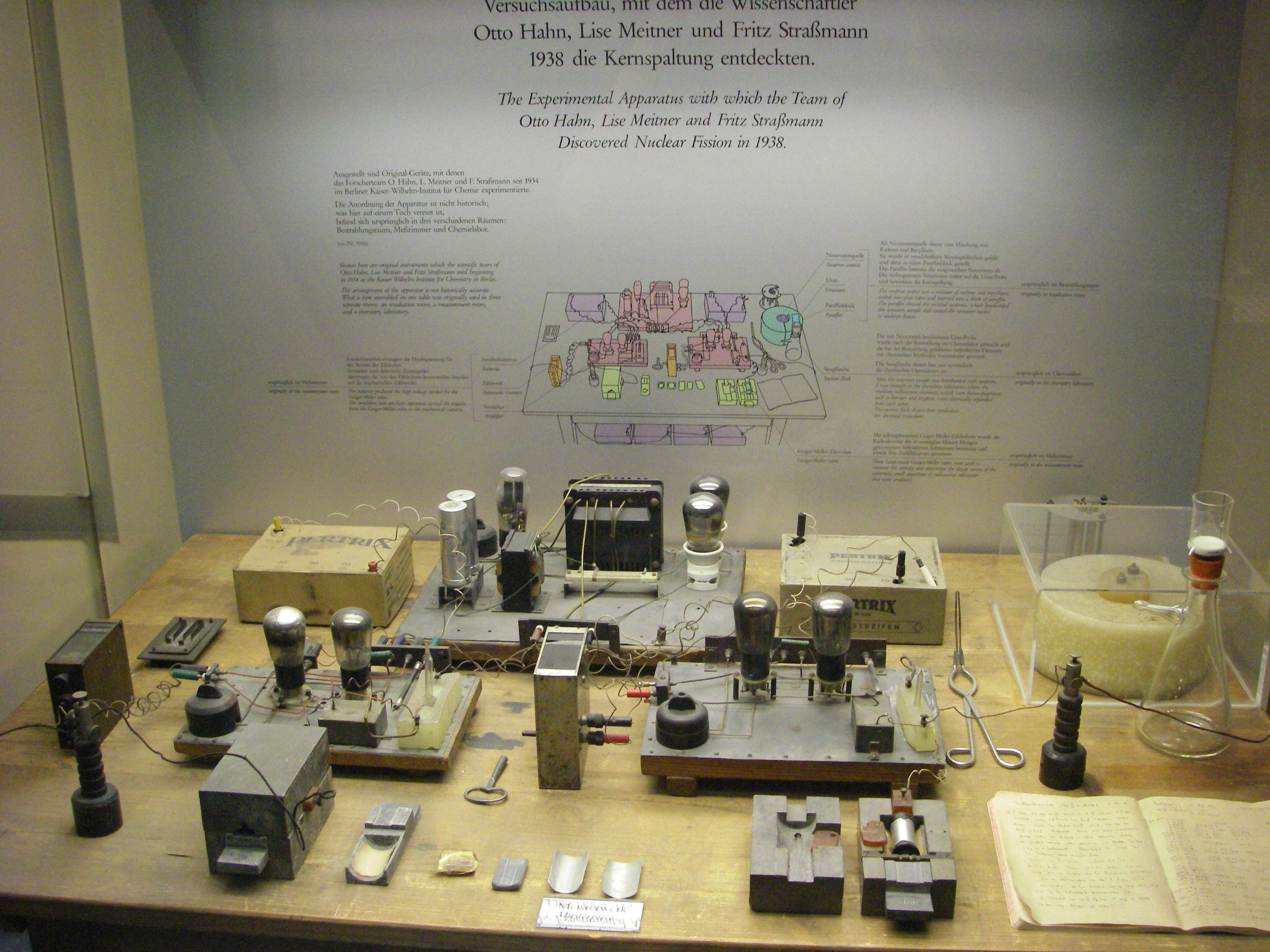 1938 nuclear fission experiment by Hahn, Meitner, and Straßmann. Display at the Deutsches Museum, Munich